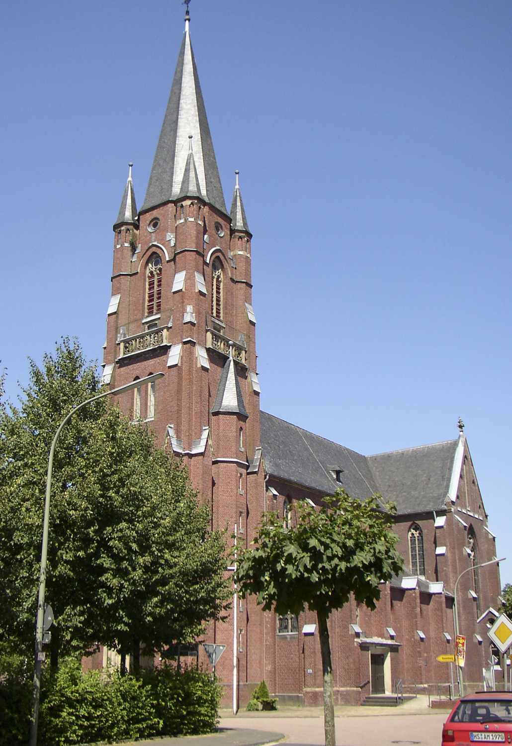 Holzweiler